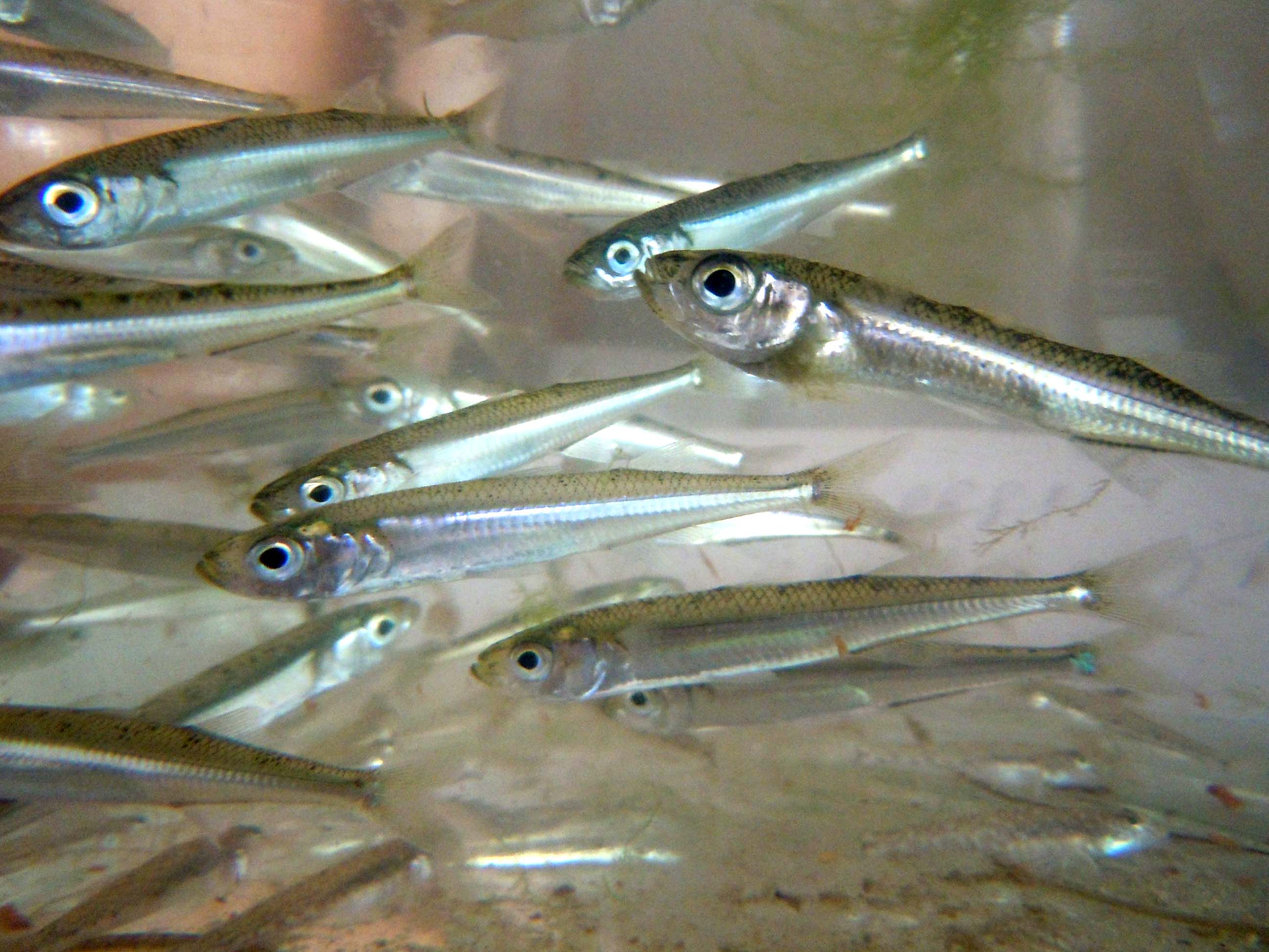 Big-scale sand smelt (Atherina boyeri) from the Gulf of Odessa, Black Sea, Ukraine